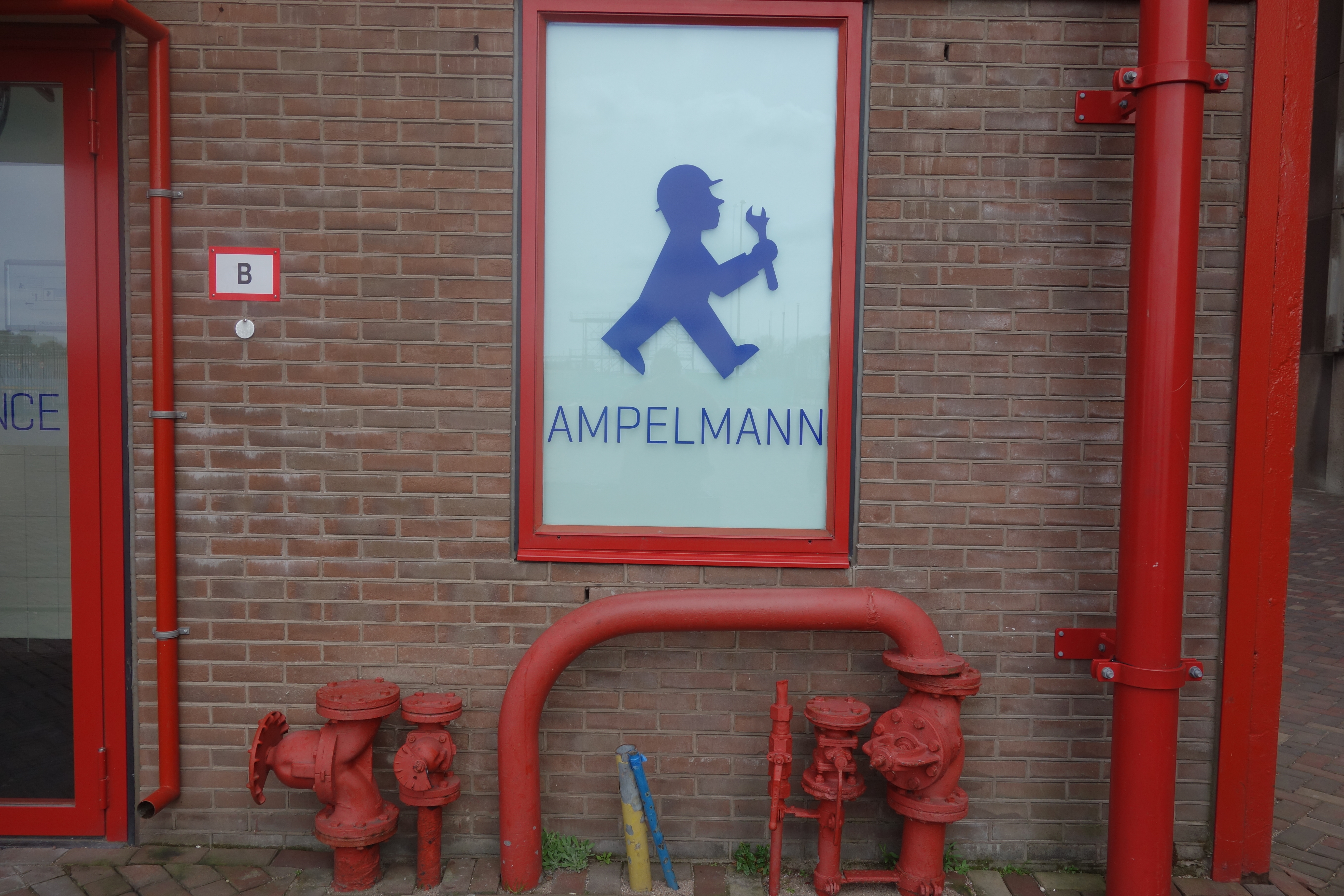 Ampelmann factory, Rotterdam Heijplaat (the Netherlands) (2017)